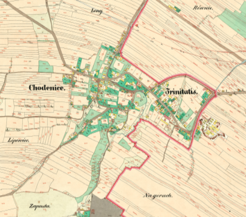 Chodenice and the colony of Trinitatis on an austrian cadastral map from 1847